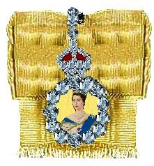 Royal Family Order